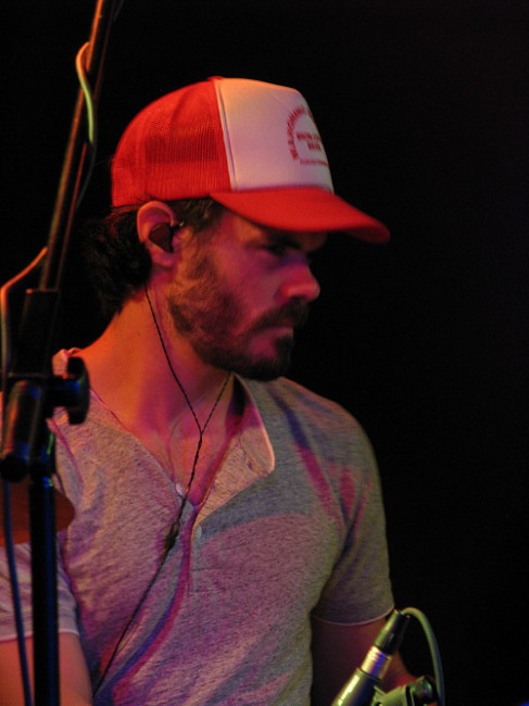 Alex McWalters of River Whyless on stage at The Saint in Asbury Park, NJ, on 06192017. Photo by LHCollins